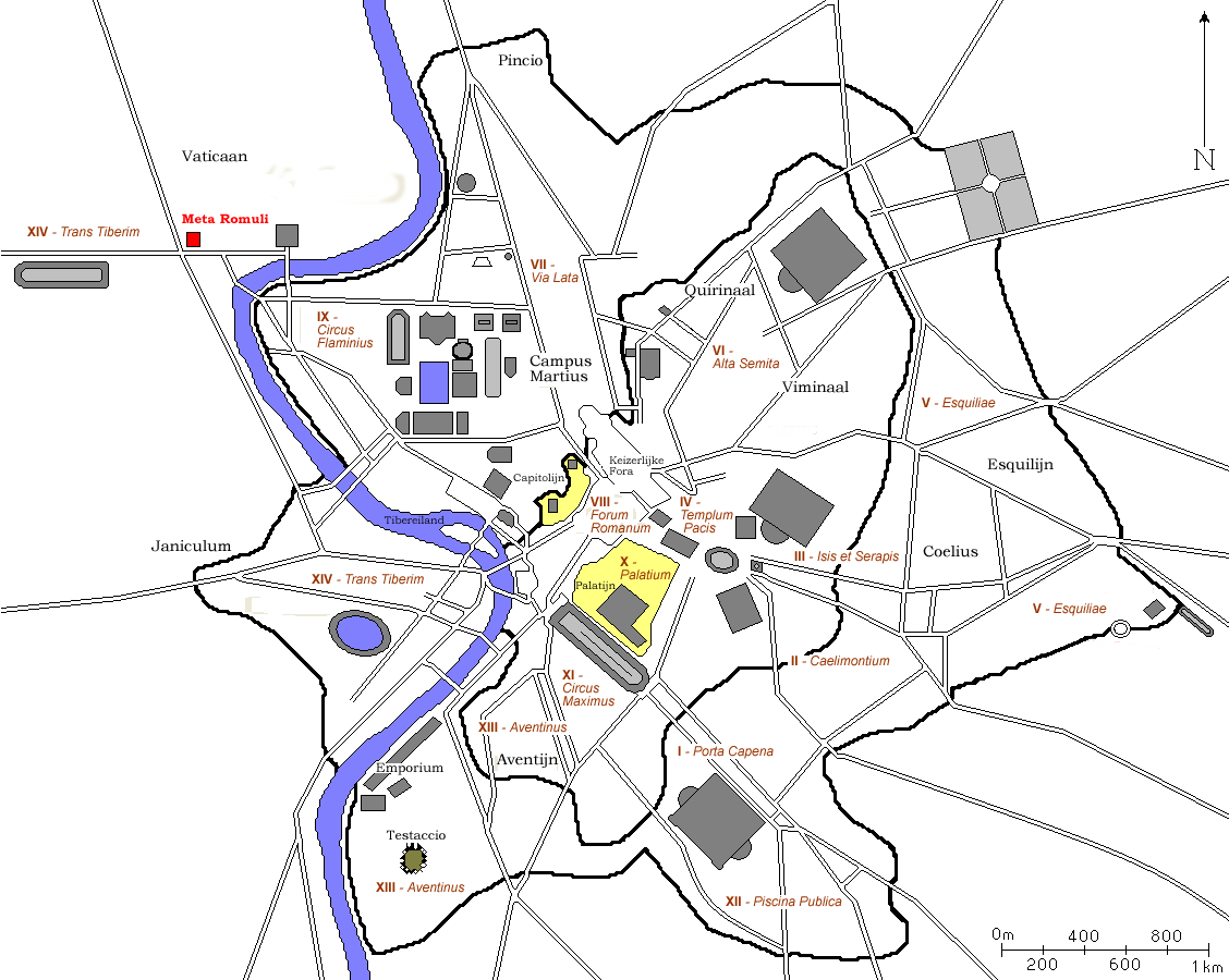 Map of ancient Rome with the Meta Romuli highlited.Map originally created forFR:wiki and edtited by me.versie bewerkt.